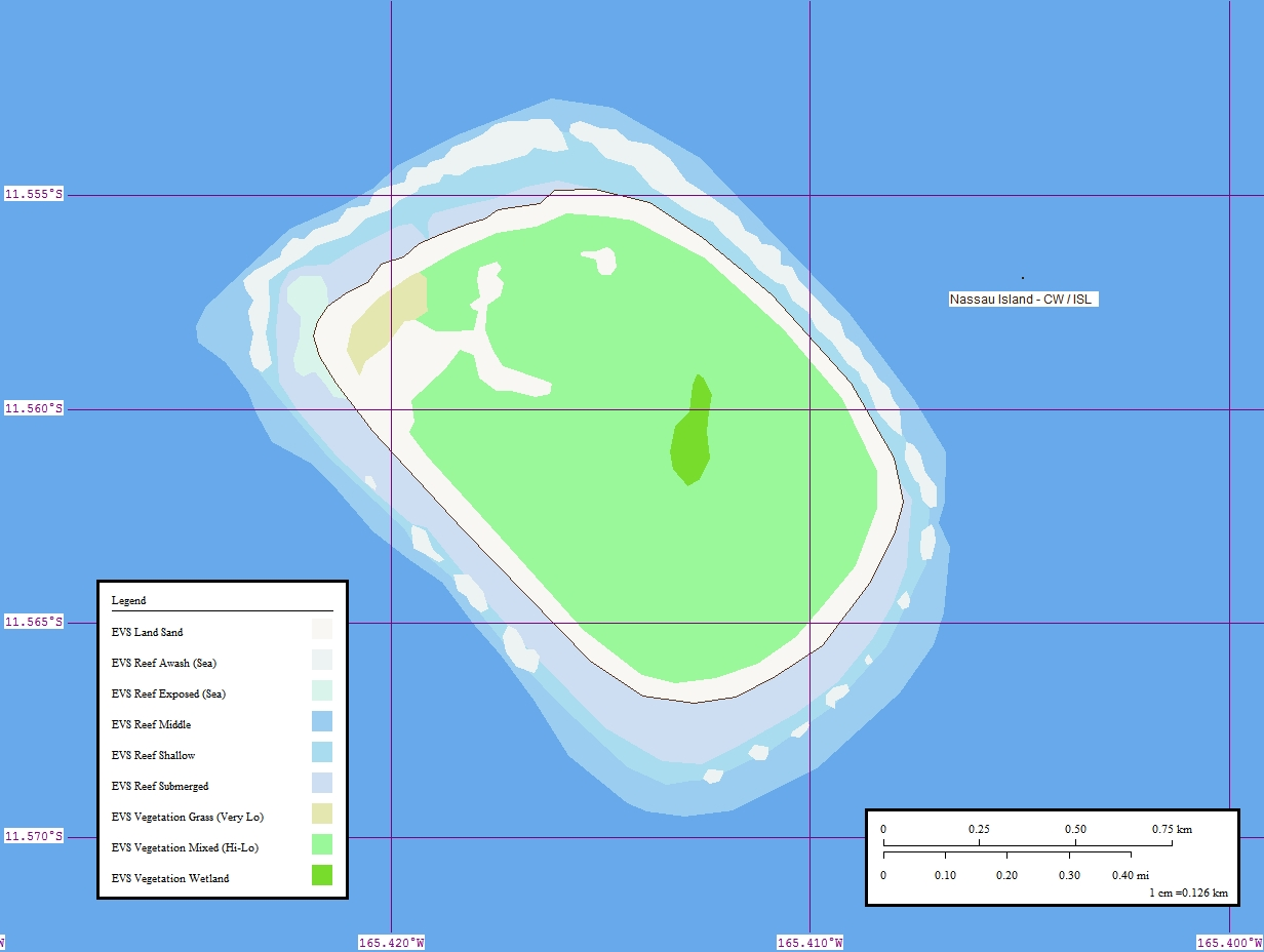 Map of Nassau Island, Cook Islands